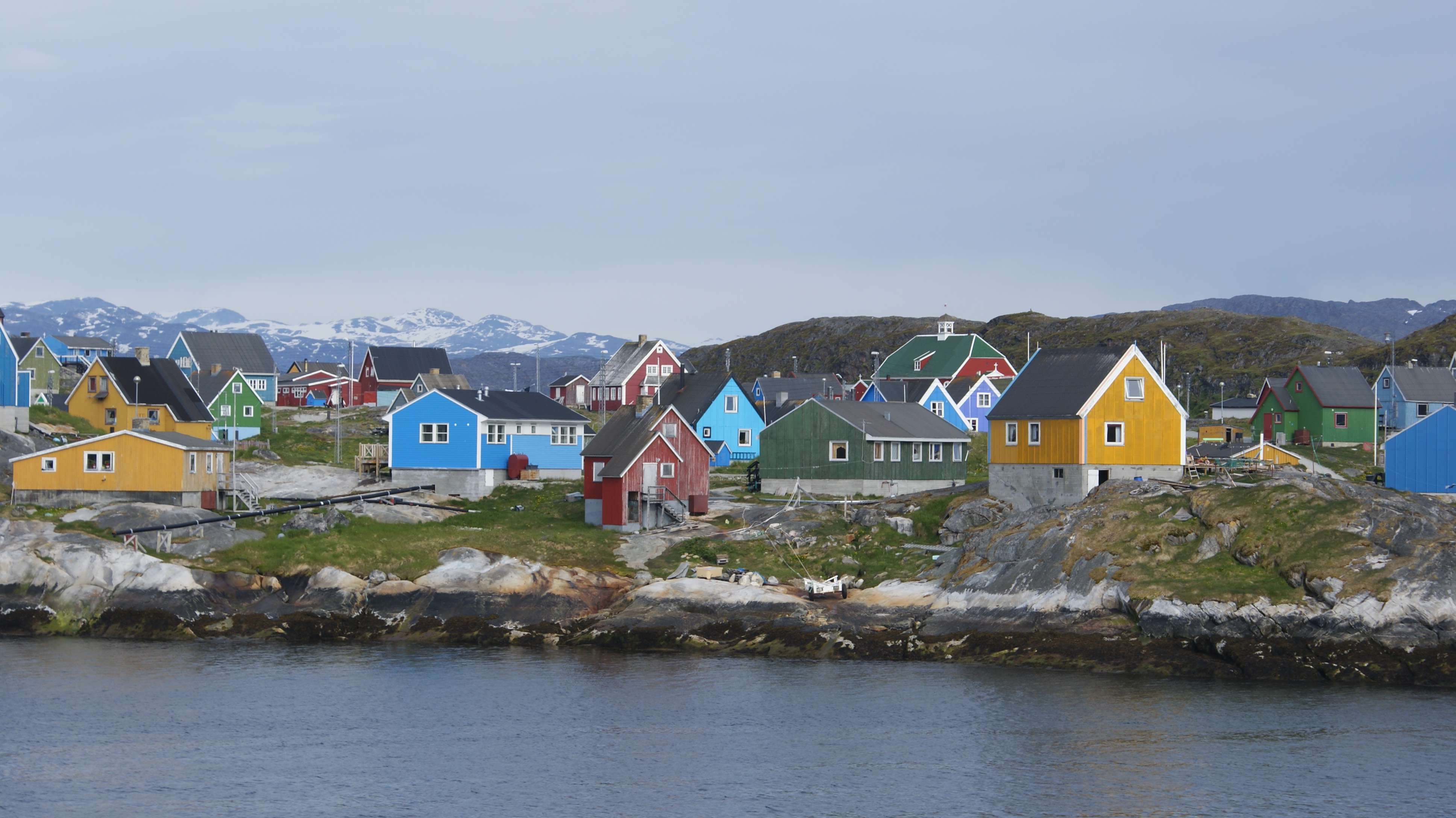 Qeqertarsuatsiaat, a settlement on the shore of Labrador Sea, Sermersooq, southwestern Greenland, photographed from Sarfaq Ittuk of Arctic Umiaq Line